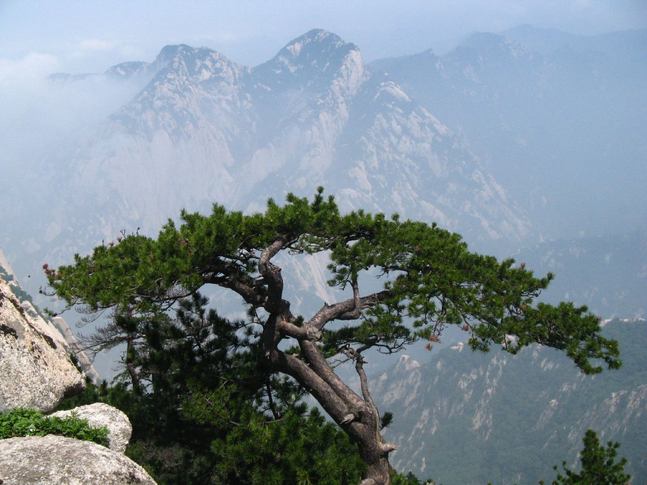 Pinus tabuliformis. Hua Shan, Shaanxi 34°29'32"N 110°5'33"E.